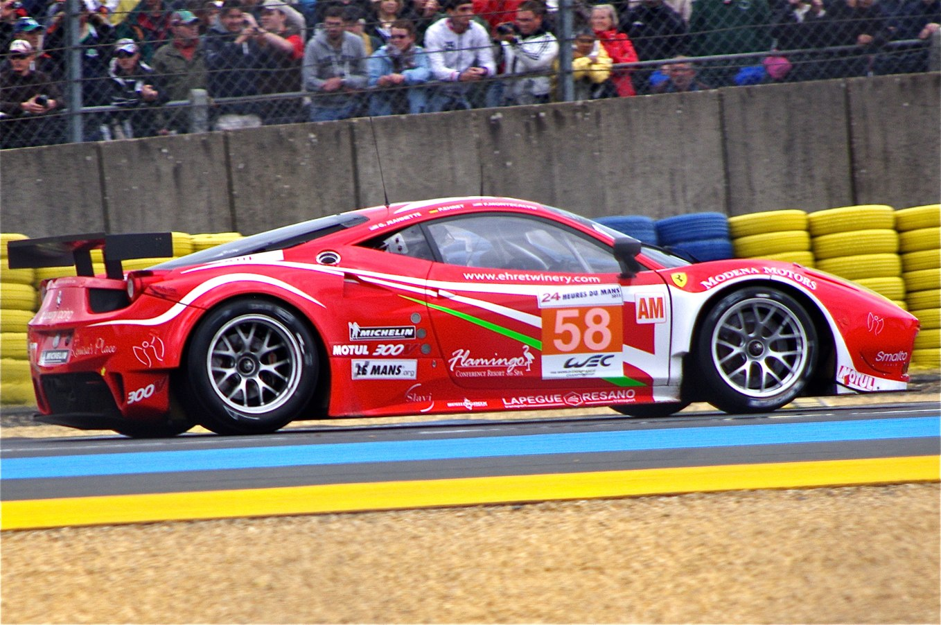 Luxury Racing's Ferrari 458 Italia Driven by Piette Ehret, Gunnar Jeannette and Frankie Montecalvo at Le mans 2012.